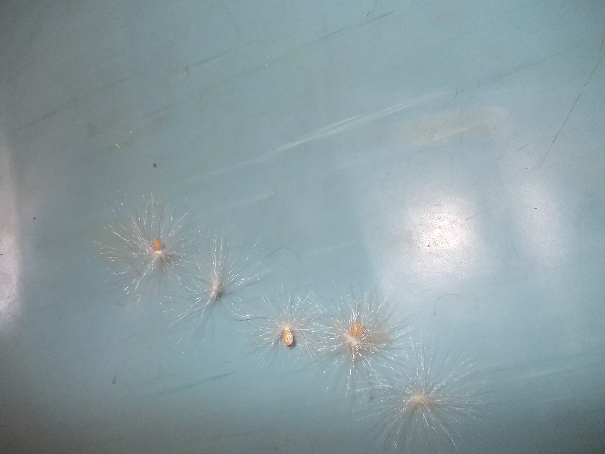 Woollypodkerala